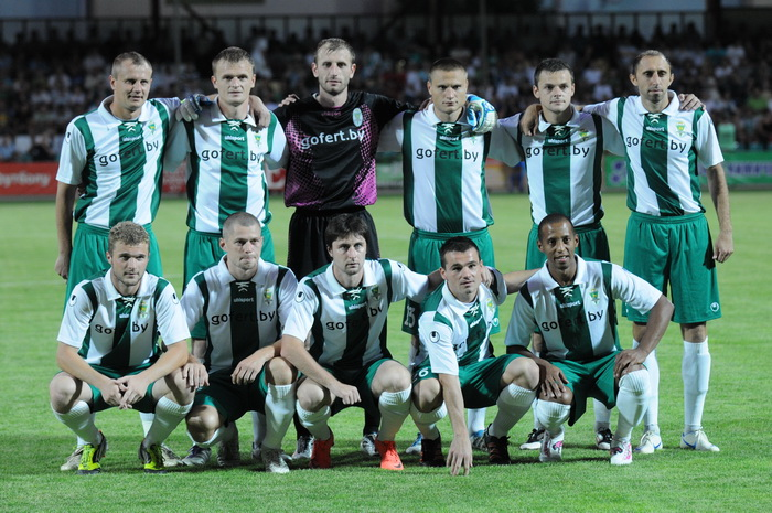 FC Gomel before 3rd round UEFA Europa League qualifier FC Gomel - Liverpool F.C.